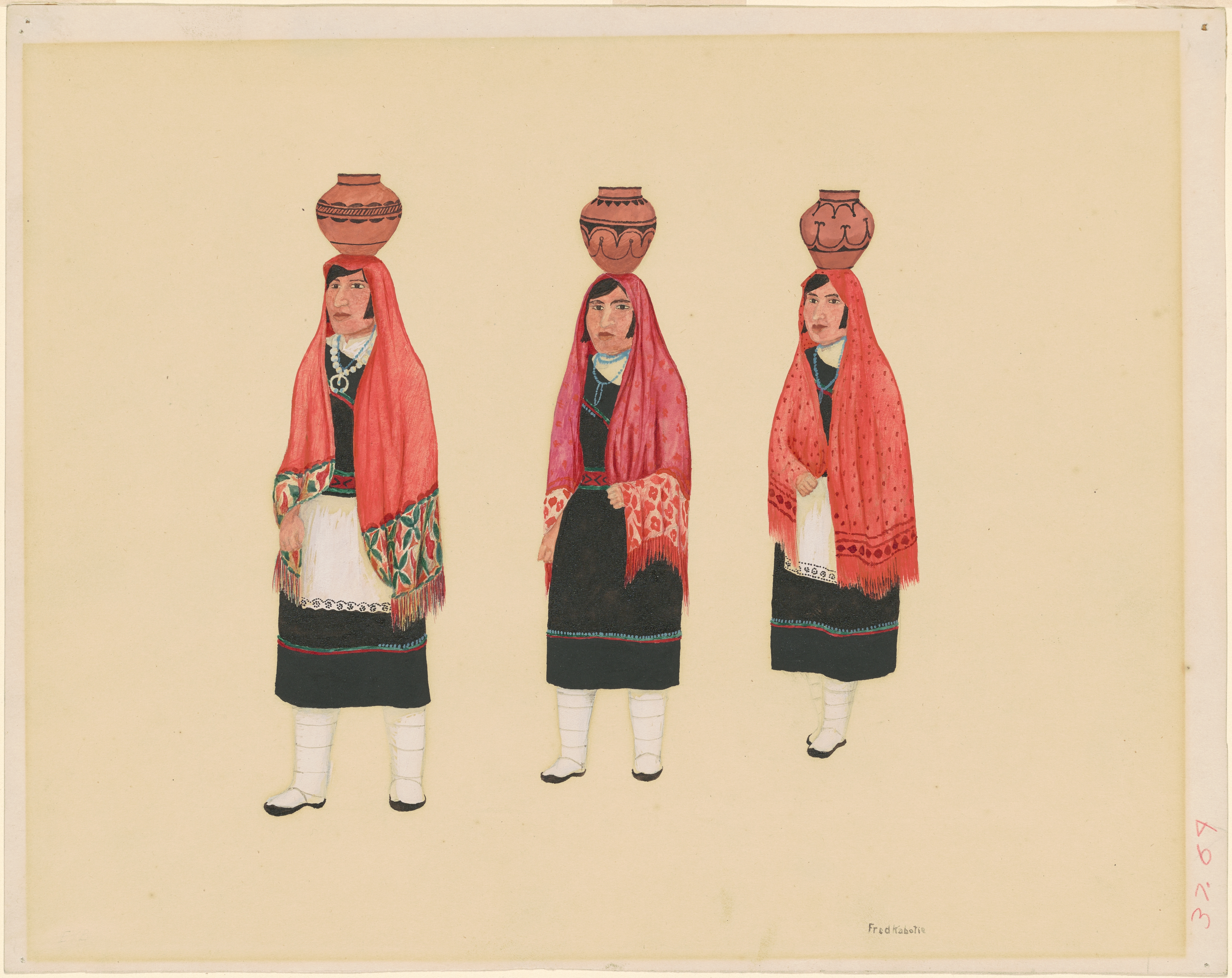 Drawing; gouache and brush and black ink, over graphite on wove paper; image (irregular): 19.05 × 19.37 cm (7 1/2 × 7 5/8 in.)sheet: 28.58 × 36.2 cm (11 1/4 × 14 1/4 in.)